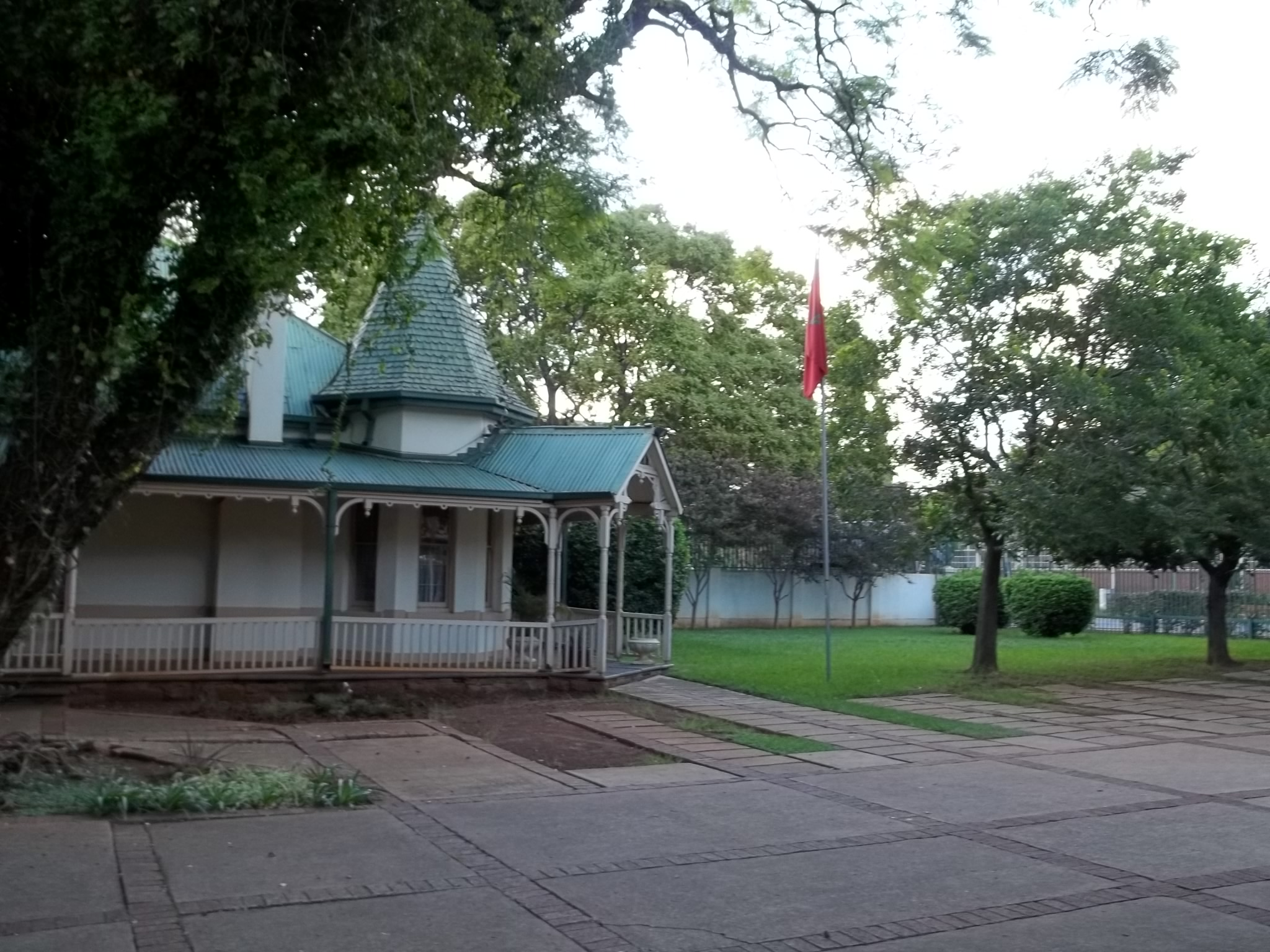 MO in ZA